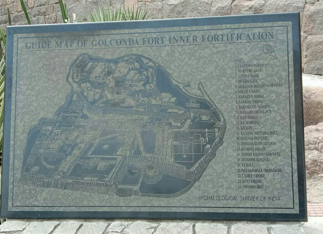 Guide map of Golkonda fort